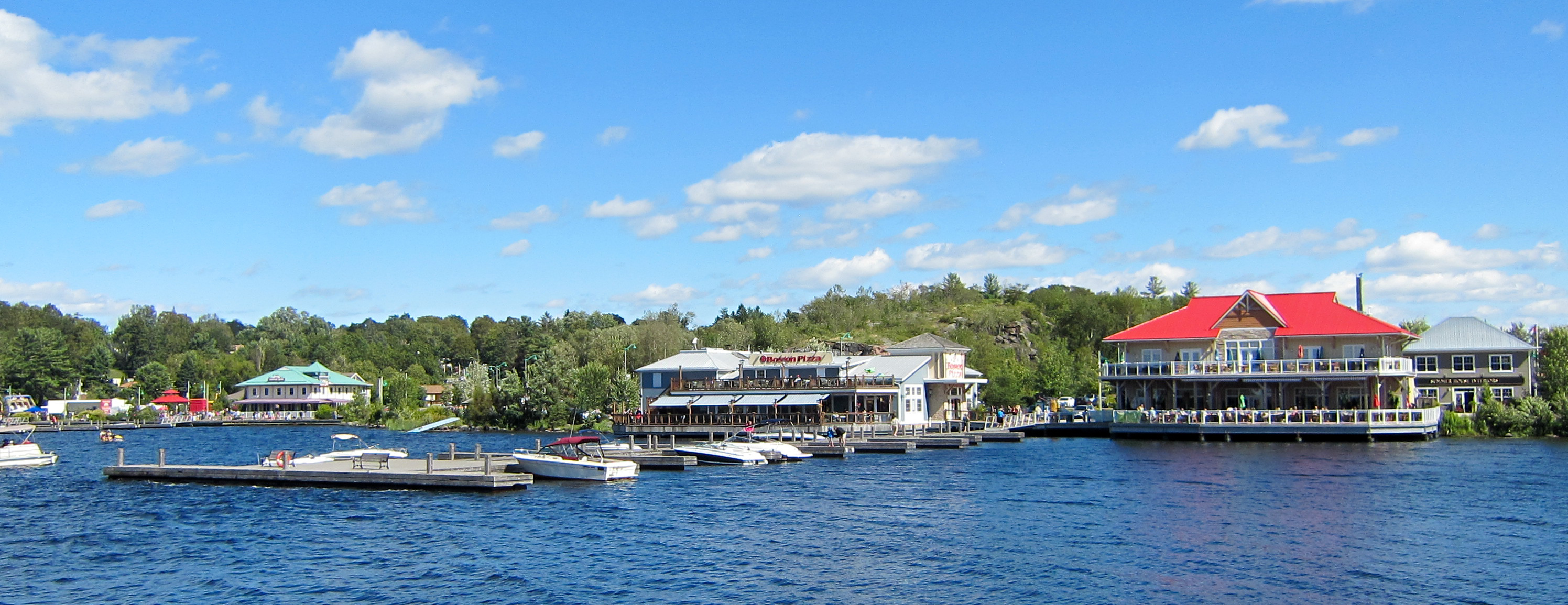 View of Muskoka Wharf from over the bay